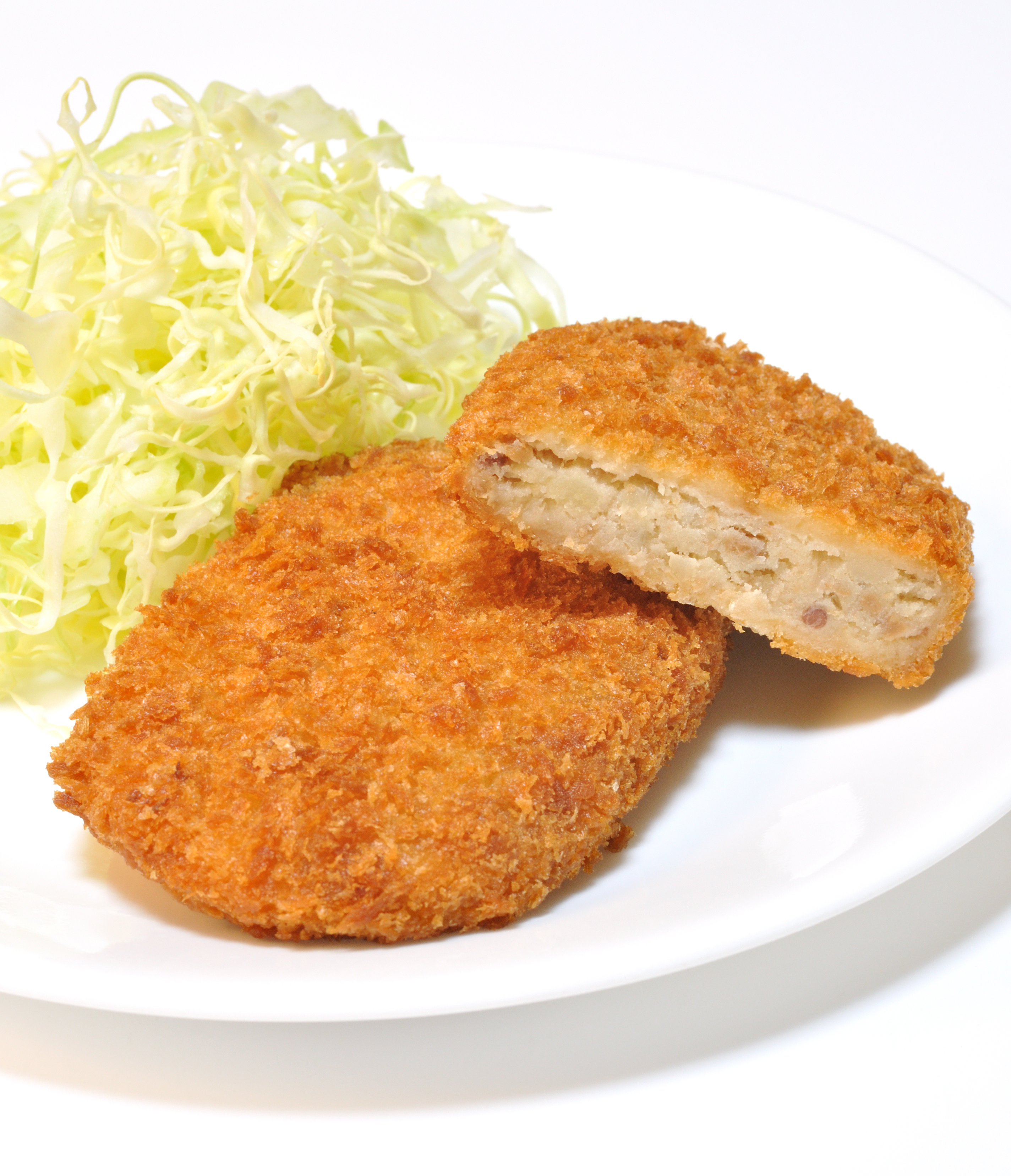 Typical example of Potato croquettes.